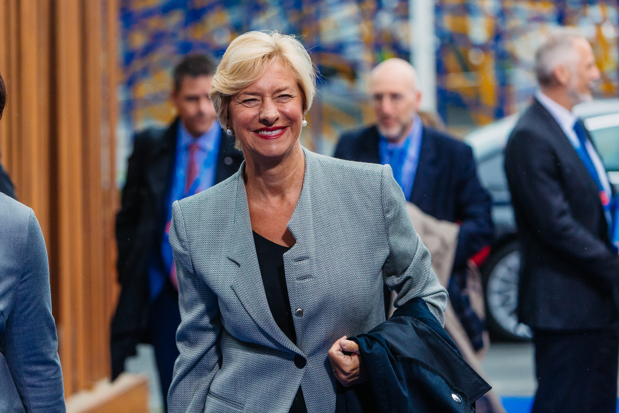 Roberta Pinotti, Minister, Ministry of Defence, Italy Photo: Arno Mikkor (EU2017EE)